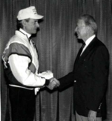 Jerry Dunn shakes President Jimmy Carter's hand after running a cross-country race for Habitat for Humanity.